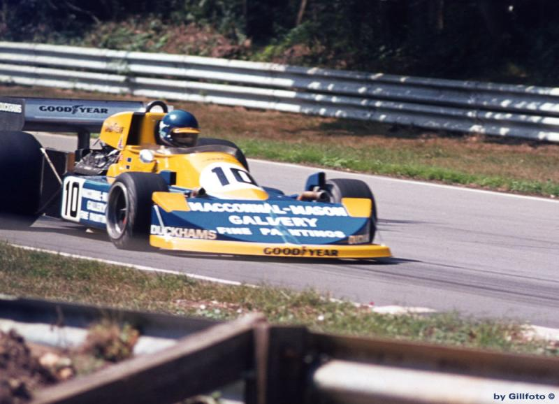 Brands Hatch